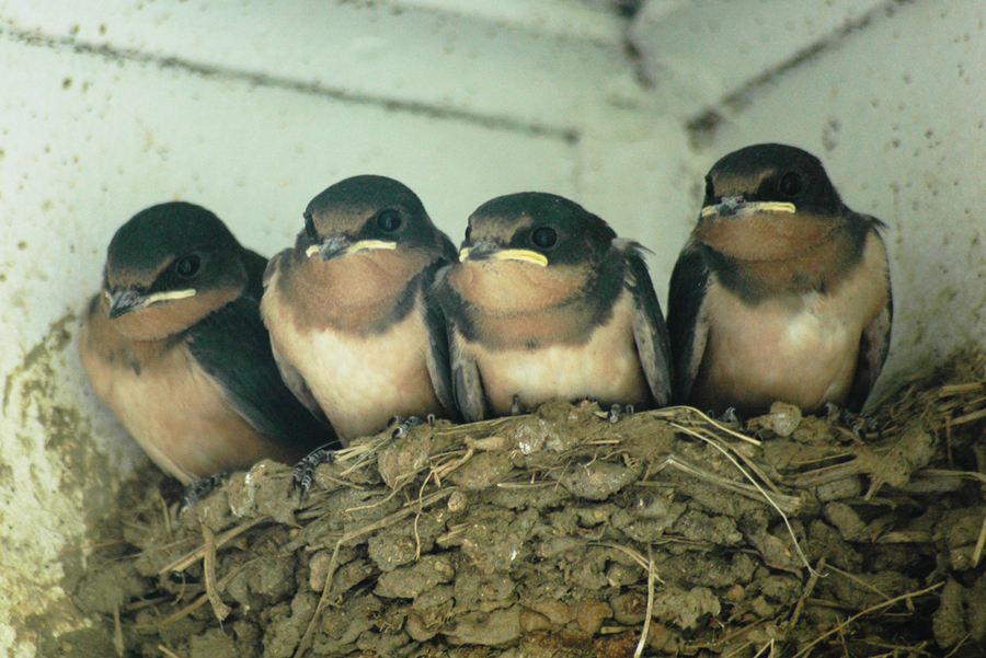 Barn swallow chicks, almost ready to fly off.